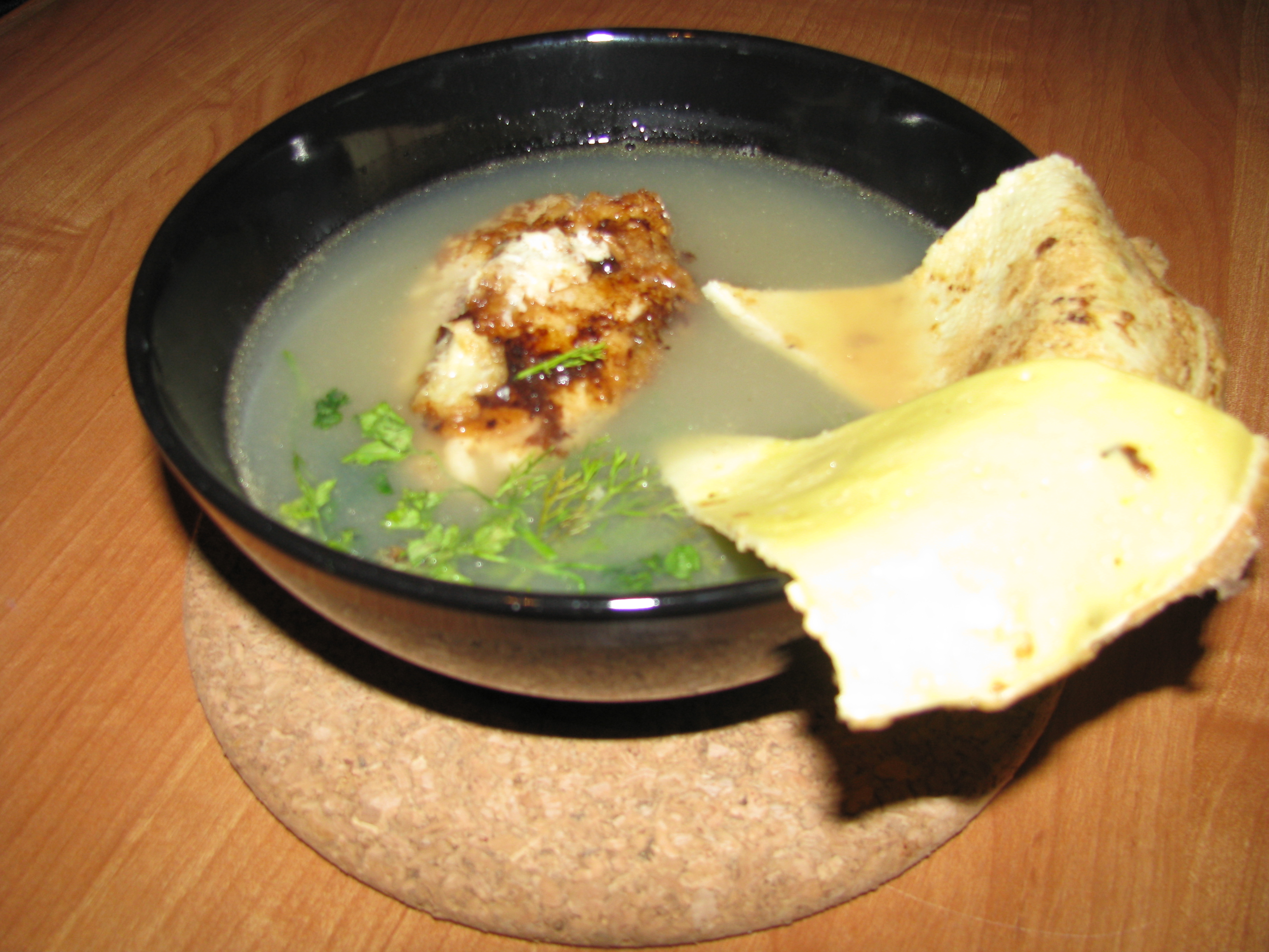 Kind of ucha (Опеканная уха)